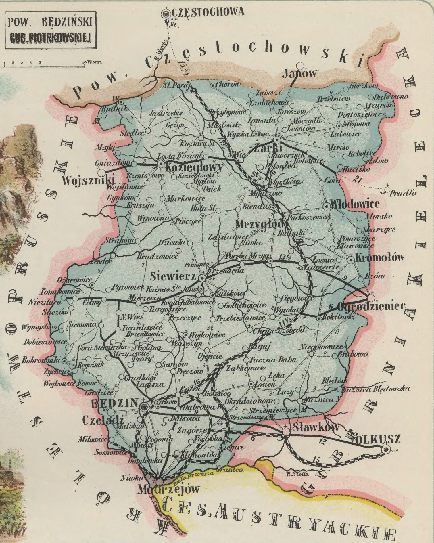 Będzin County in 1907